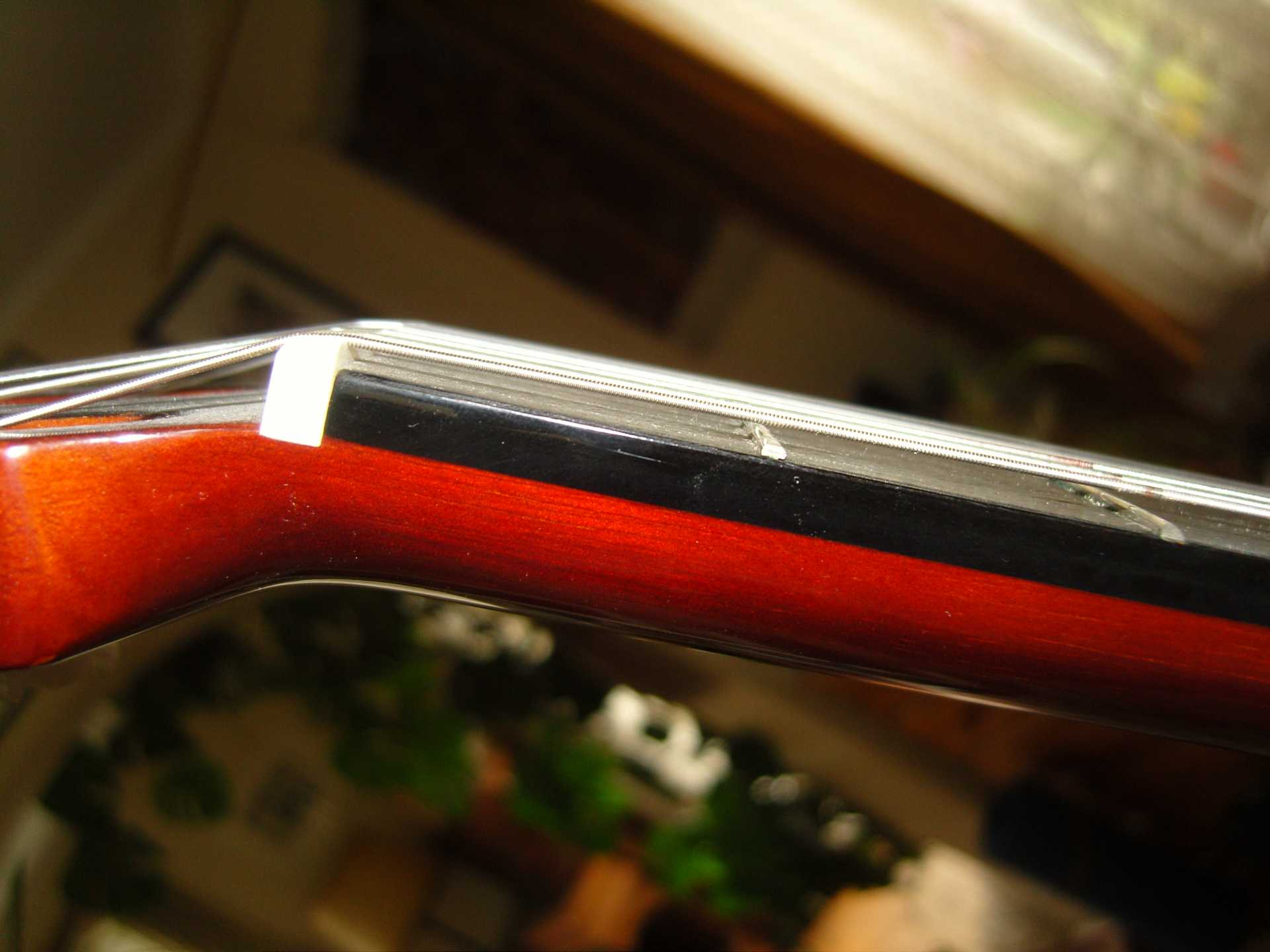 High nut and high string action on a YAMAHA CG 150-SA concert guitar causing pitch intonation errors.